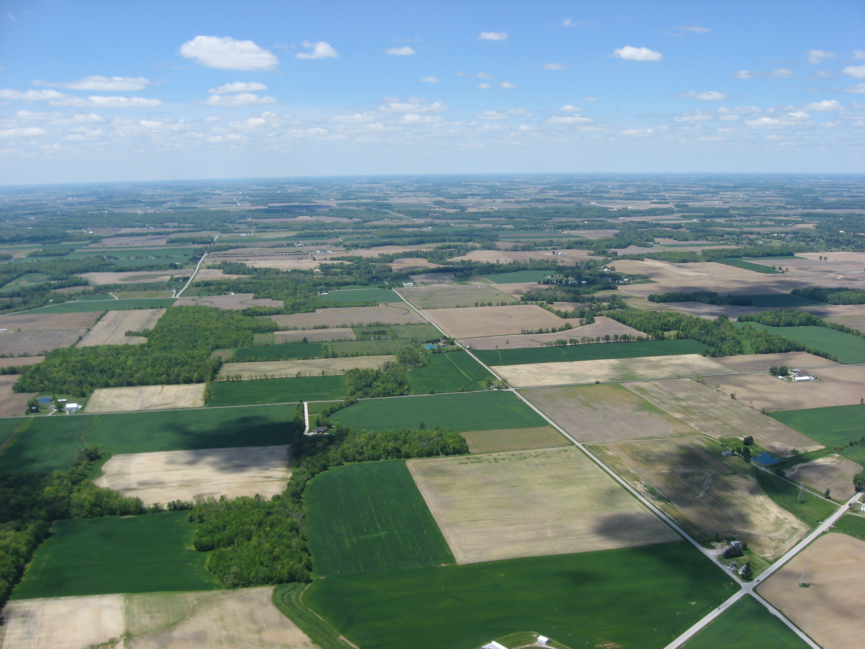 Aerial view of central Eden Township, Seneca County, Ohio, United States, just northwest of Melmore. Picture taken from a Diamond Eclipse light airplane at an altitude of 2,500 feet MSL and a bearing of approximately 270º. Diagonal road in bottom right corner is State Route 100.